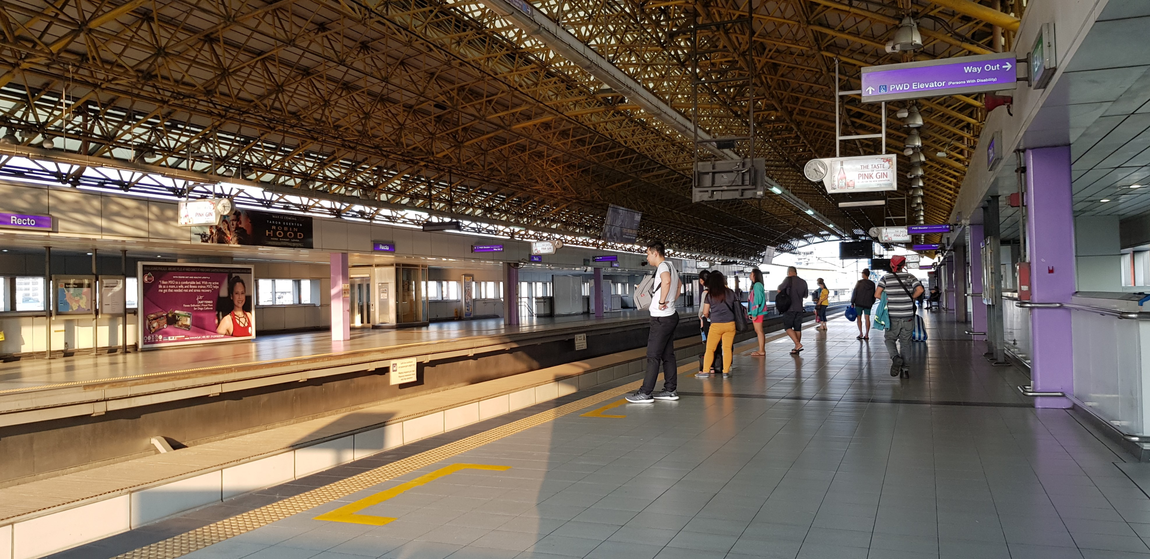 Line 2 Recto Station Platform